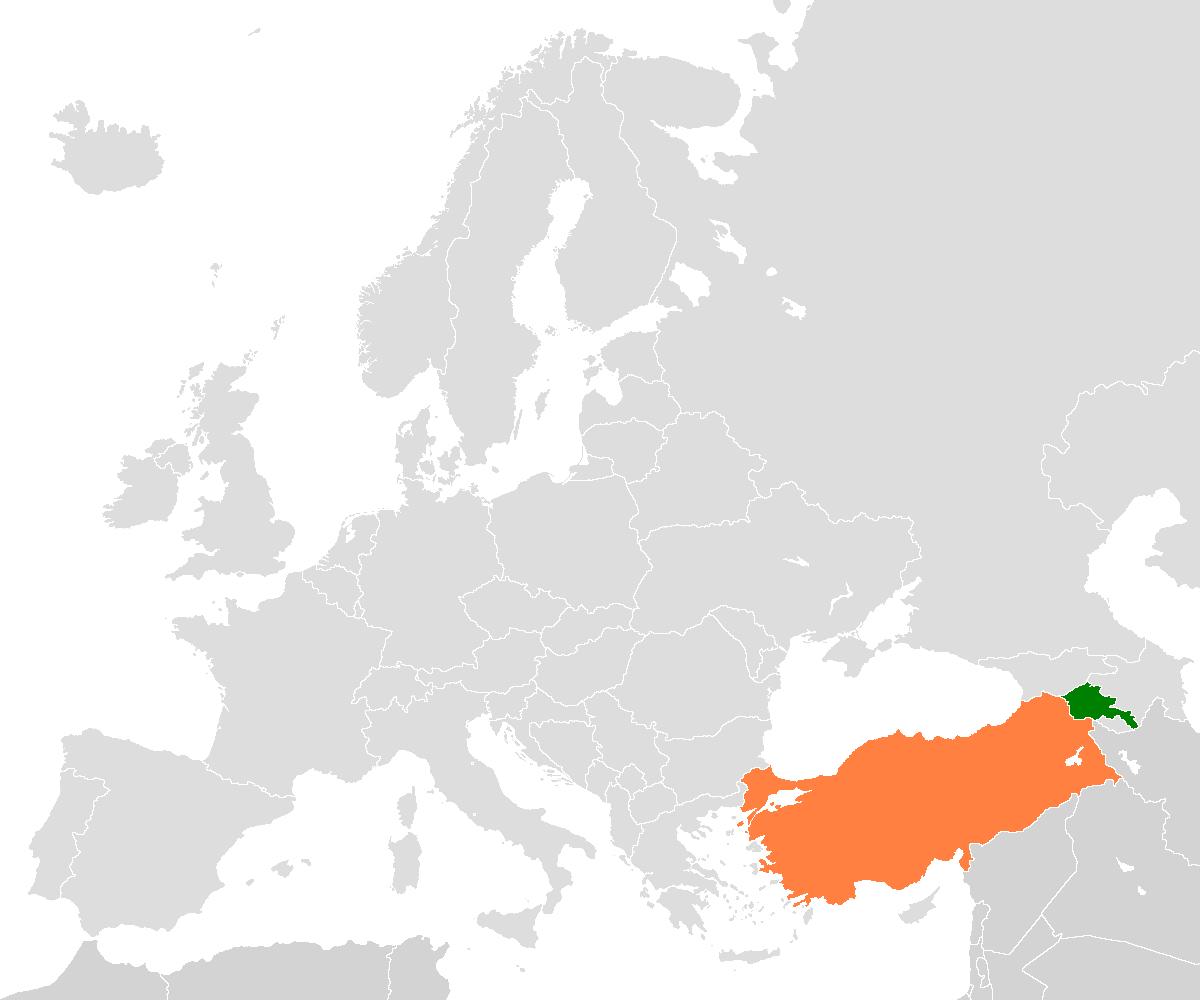 Created by user:Aivazovsky for use in bilateral relations article.